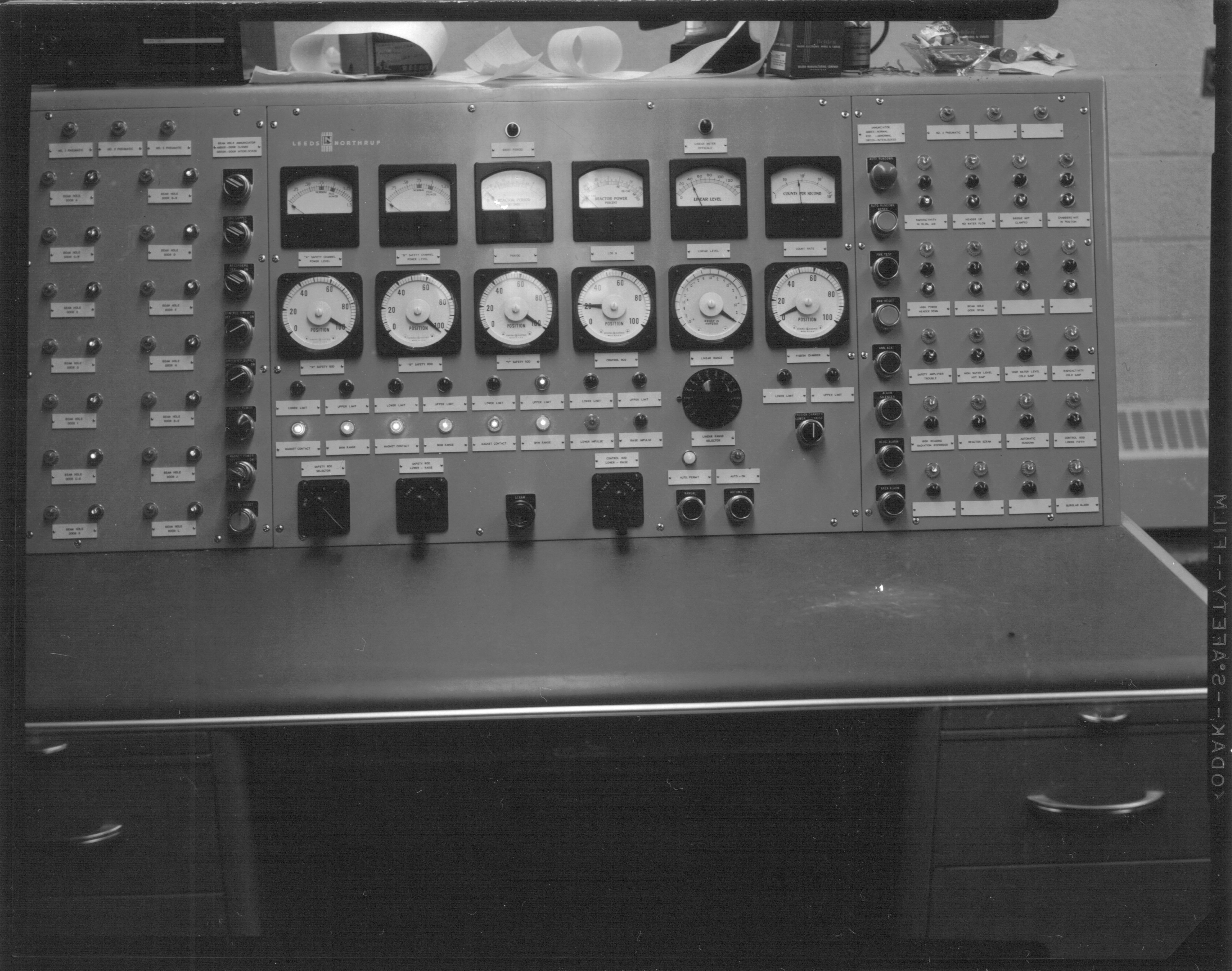 This is a photo of the Ford Nuclear Reactor control panel. It was scanned from an Ann Arbor local resident's personal collection.